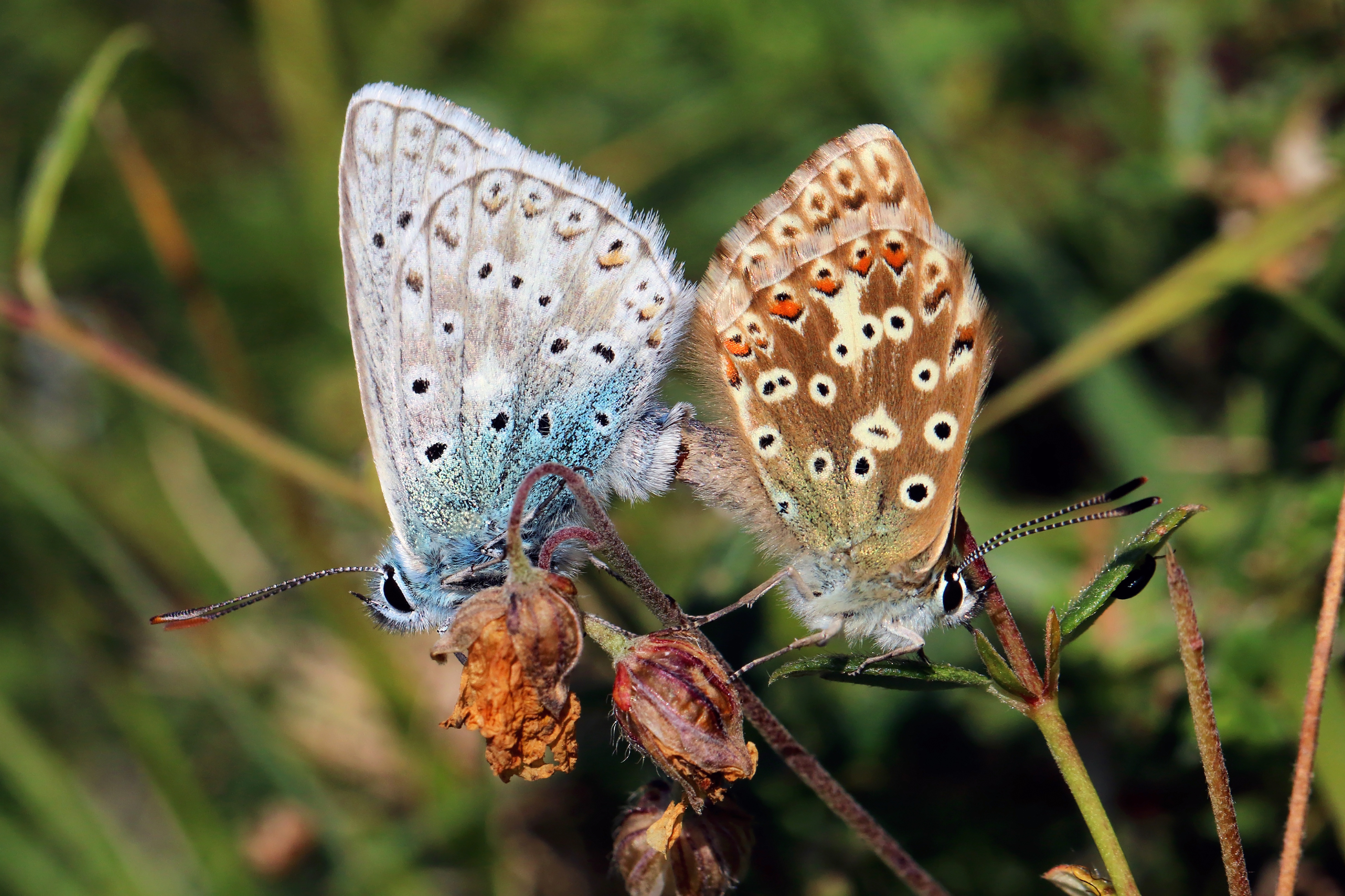 Chalkhill blue butterflies (Polyommatus coridon) mating 1